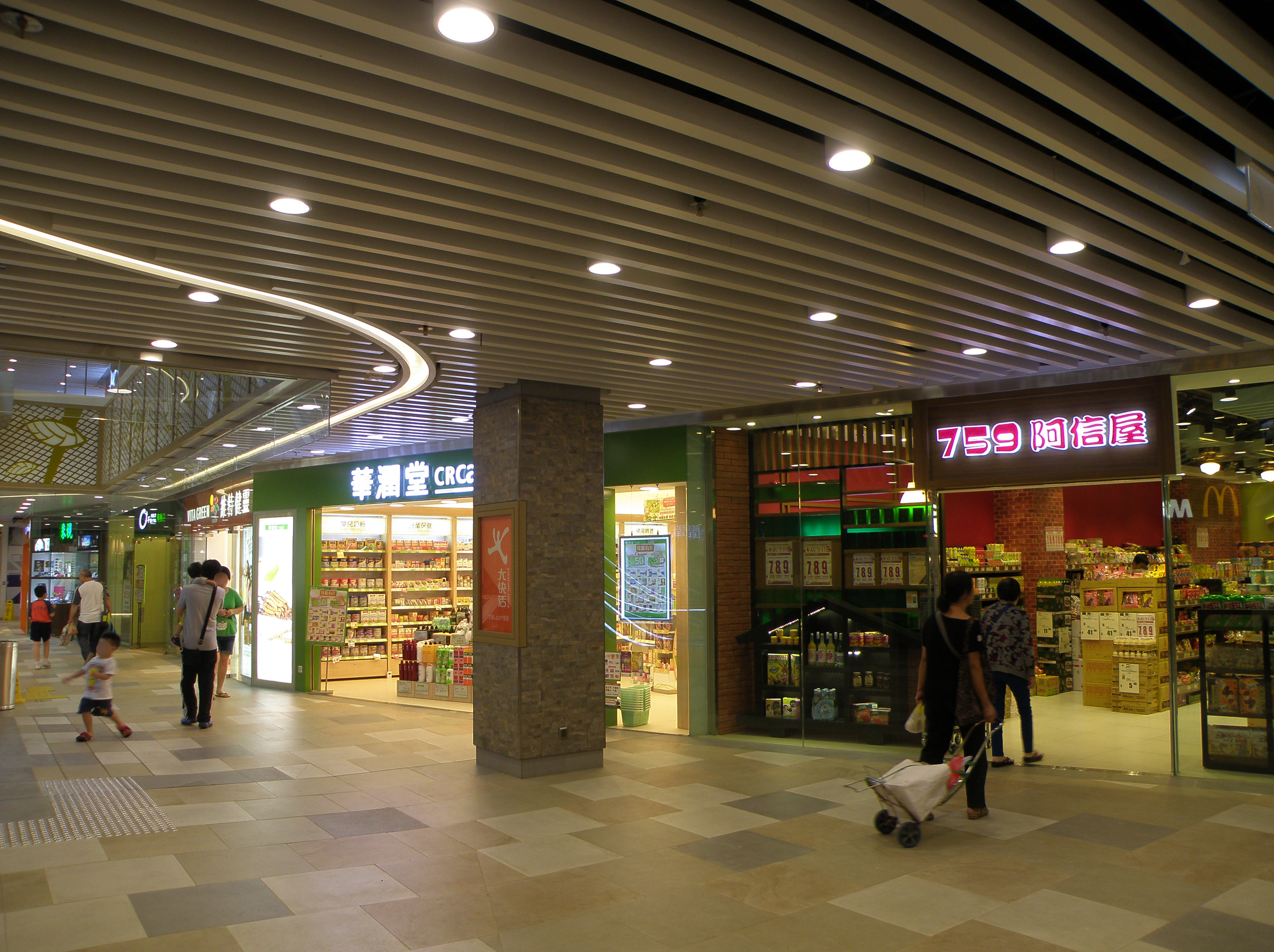 Long Ping Shopping Centre in Yuen Long, Hong Kong.